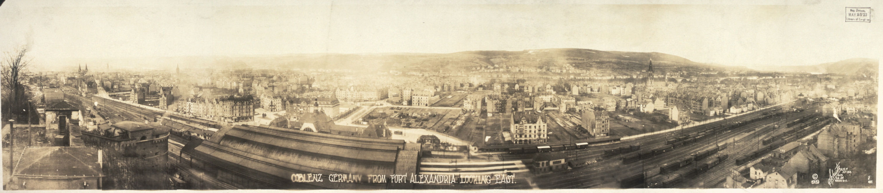 Coblenz, Germany, from Fort Alexandria, looking east, train station in Koblenz in 1919